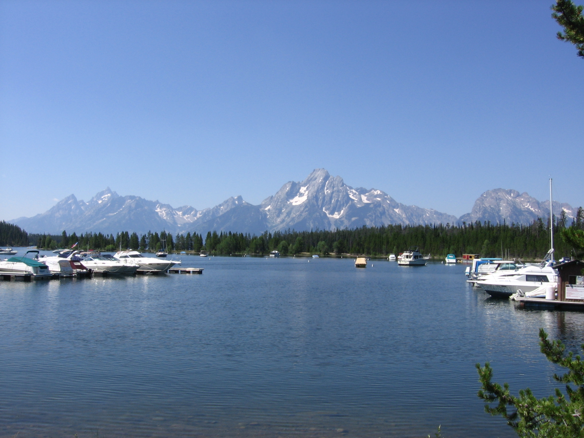 Colter Bay in Grand Teton National Park.